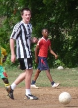 A picture of British footballer Alistair Slowe